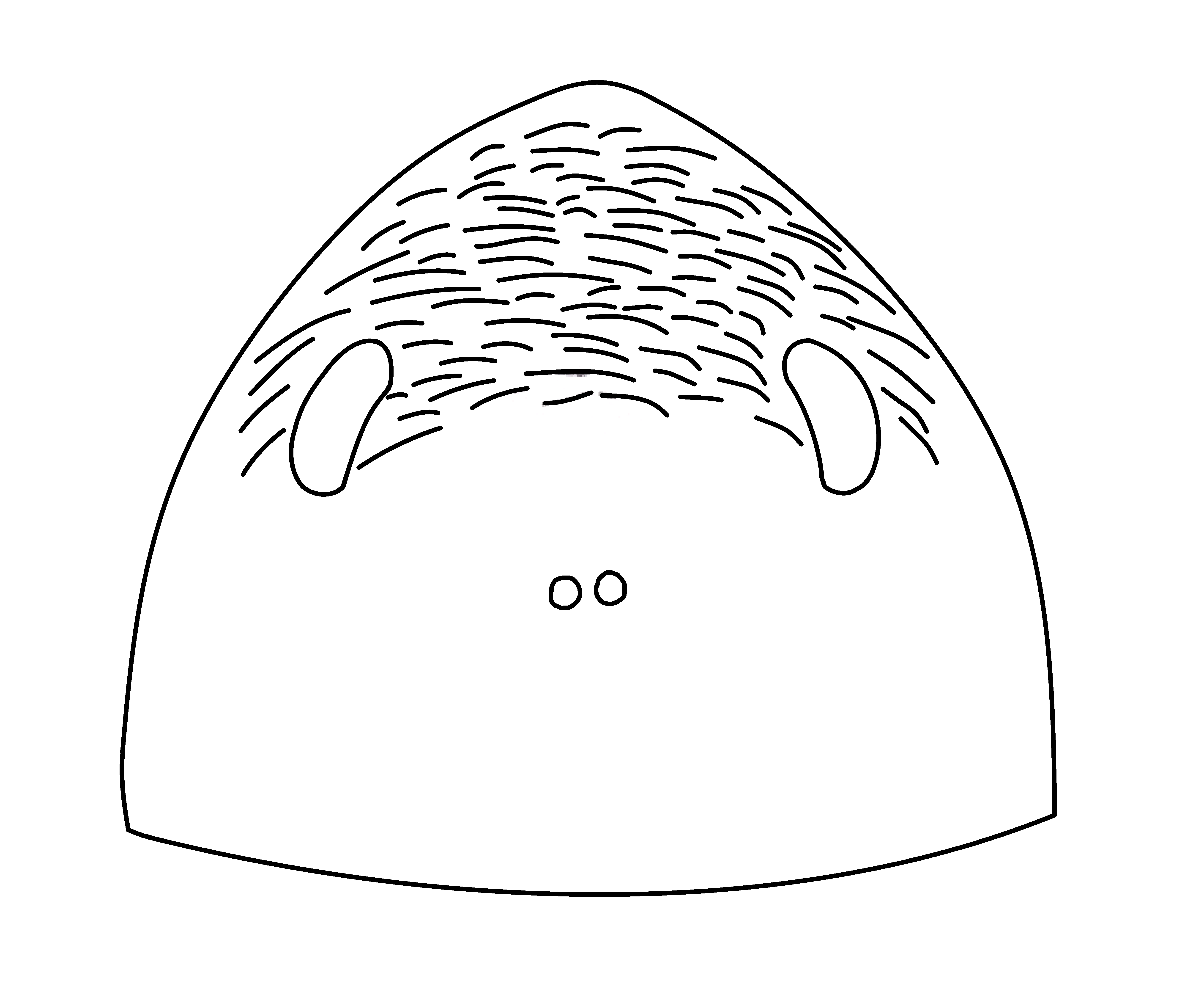 Outdated 1934 restoration of the carapace of the eurypterid species Hughmilleria patteni (now in the genus Eysyslopterus), based on Størmer, 1934.